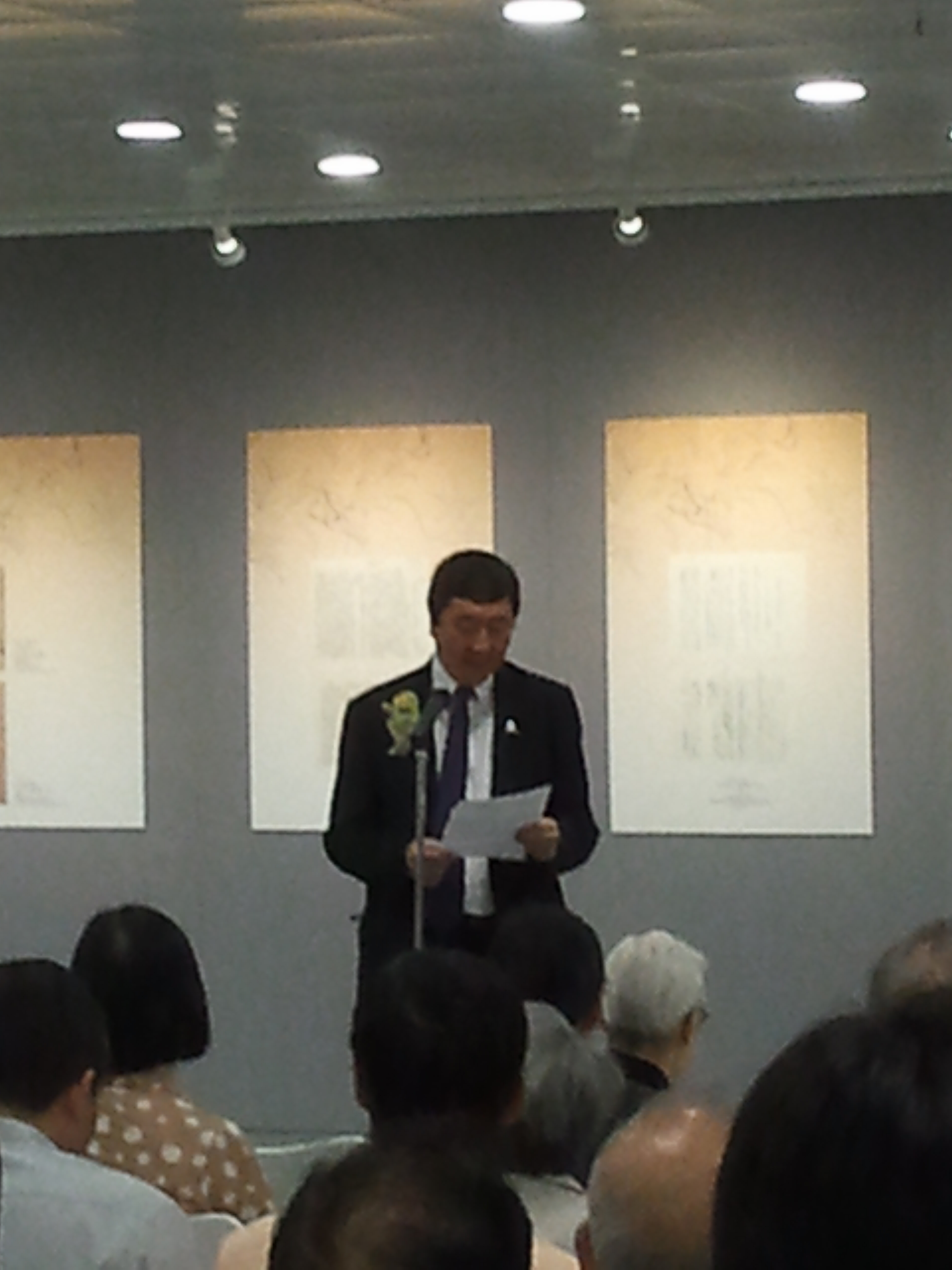 Joseph Jao-Yiu Sung in CUHK University Library